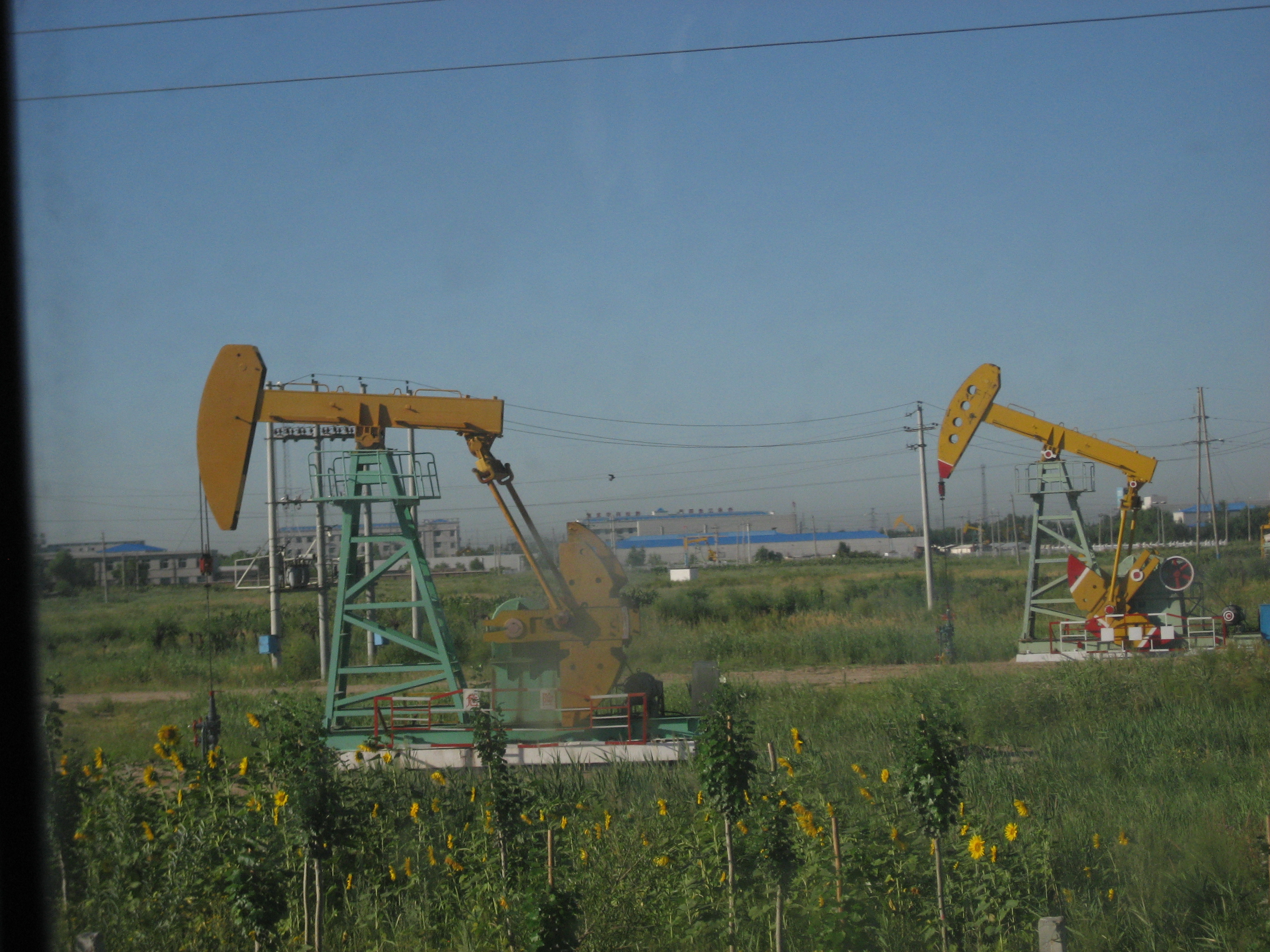 wildcat in Da Qing